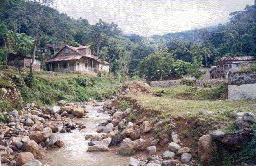 San Juancito, former mining village in the hills close to Tegucigalpa, Honduras. The US Embassy for Honduras used to be in this place, due to the richness of the silver mines.